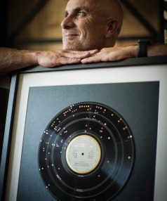 Raconteur Jason Wells